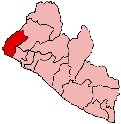 Map of Liberia showing Grand Cape Mount County; created with the GIMP. Made by User:Acntx.